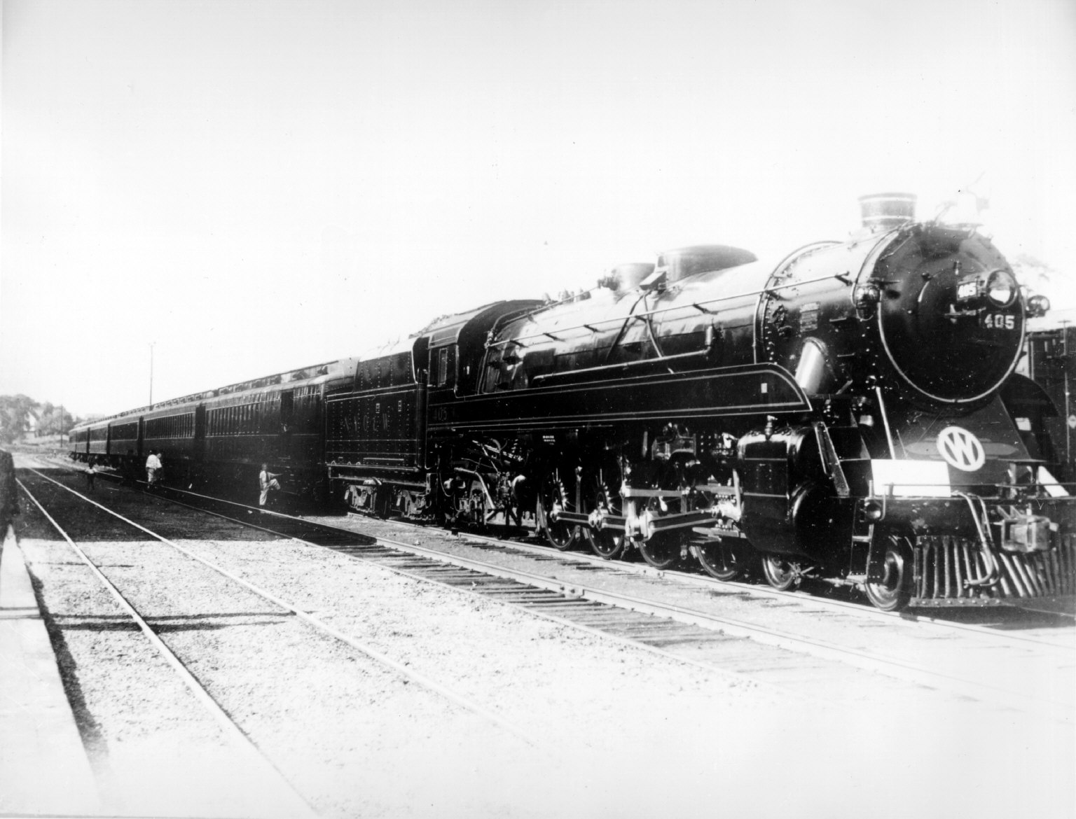 Collection: De Forest Douglas Diver Railroad Photographs, ca. 1870 - 1948, Cornell University Library Title: O&W Engine #405 Place: New York (State) Medium: Gelatin silver print Notes: Image of Engine with railroad passenger cars attached. Railroad: New York, Ontario and Western Railway; Engine #405; Class Y; Builder: American Locomotive Company; Built: 1923; Streamlined: 1937; Wheels: 4-8-2 Provenance: Diver, De Forest Douglas, 1878-1958, Collector Finding Aid: There are no known U.S. copyright restrictions on this image. The digital file is owned by the Cornell University Library which is making it freely available with the request that, when possible, the Library be credited as its source.